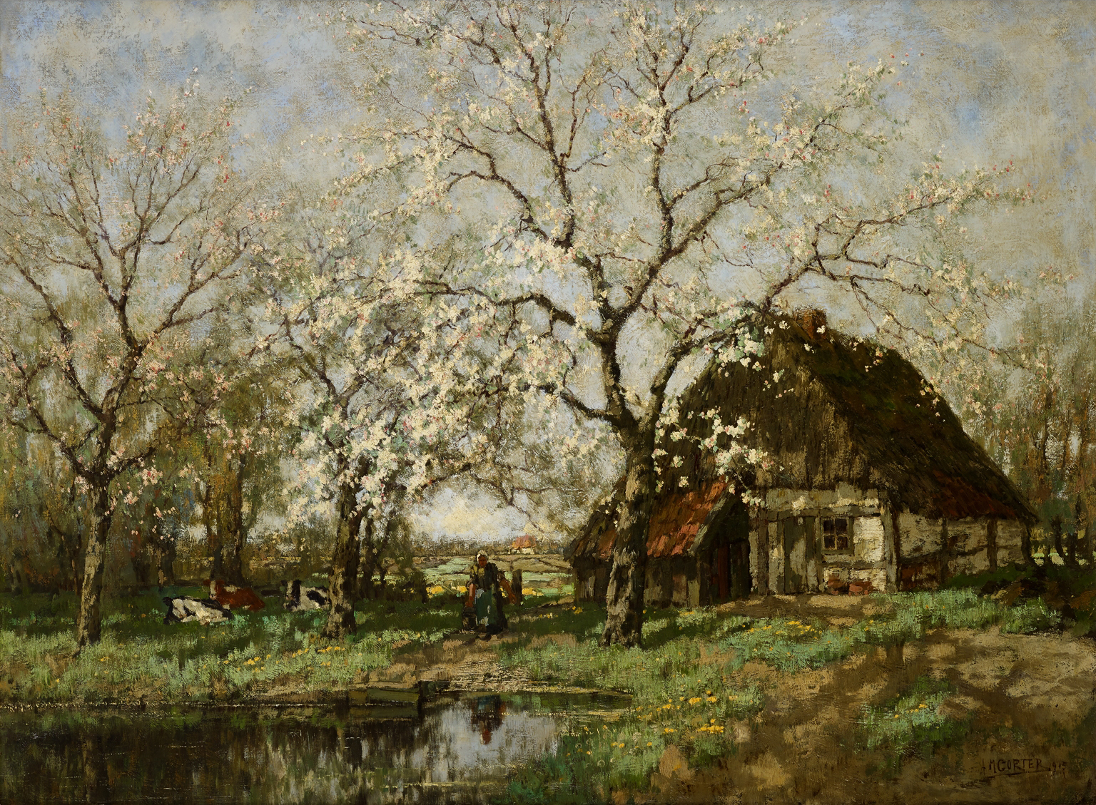 Spring landscape